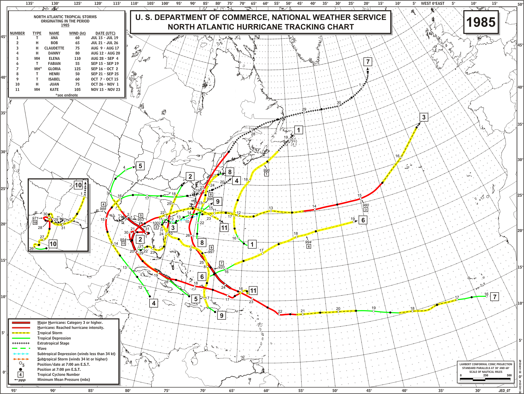 Season summary provided by NOAA of the 1985 Atlantic hurricane season.